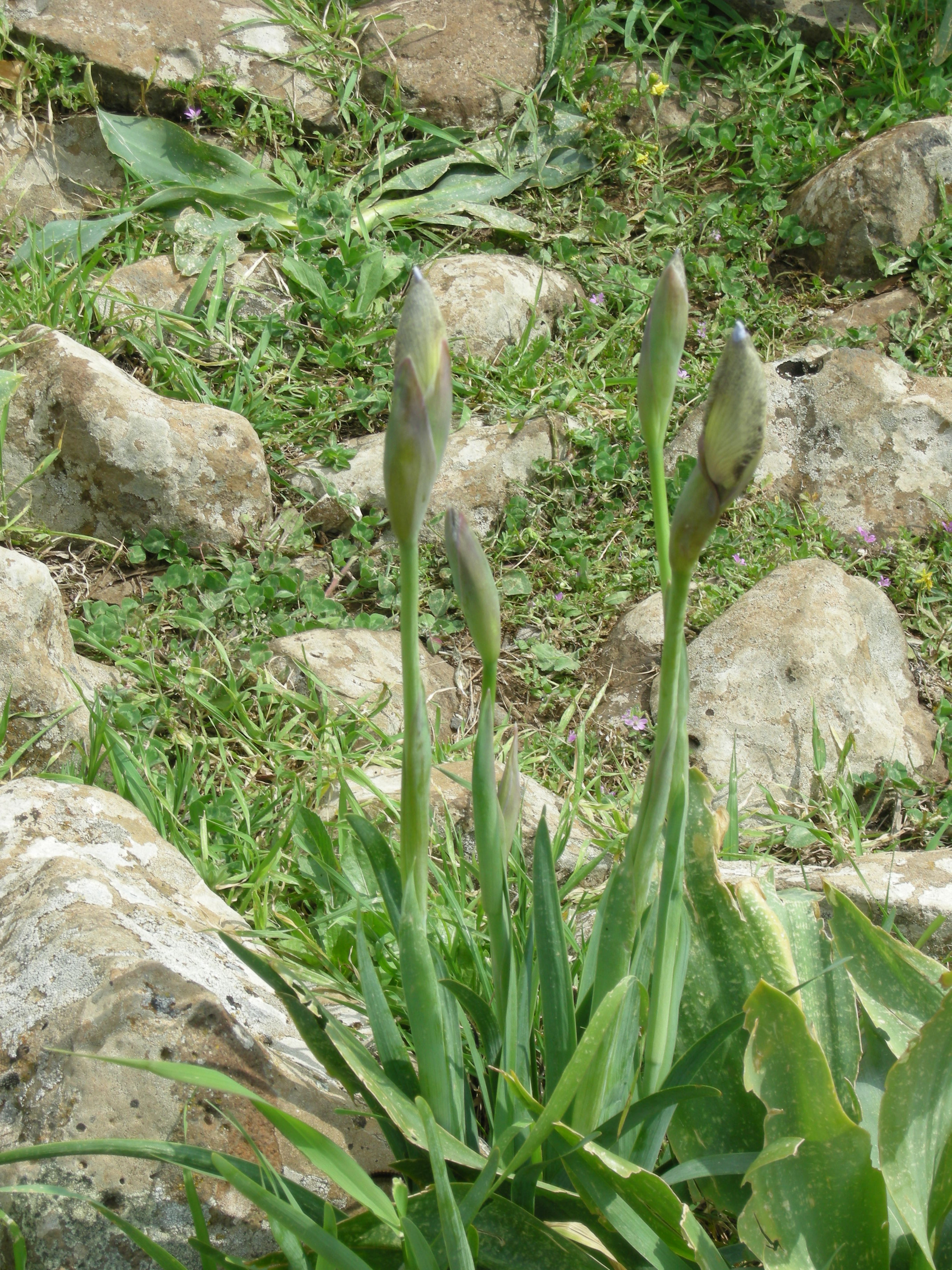 Visit in the Iris waterfall near Katzrin , Golan Heights